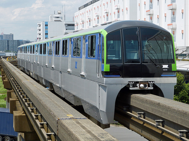 Tokyo Monorail 10000 series EMU set 10011 approaching Ryutsu Center Station on the Tokyo Monorail